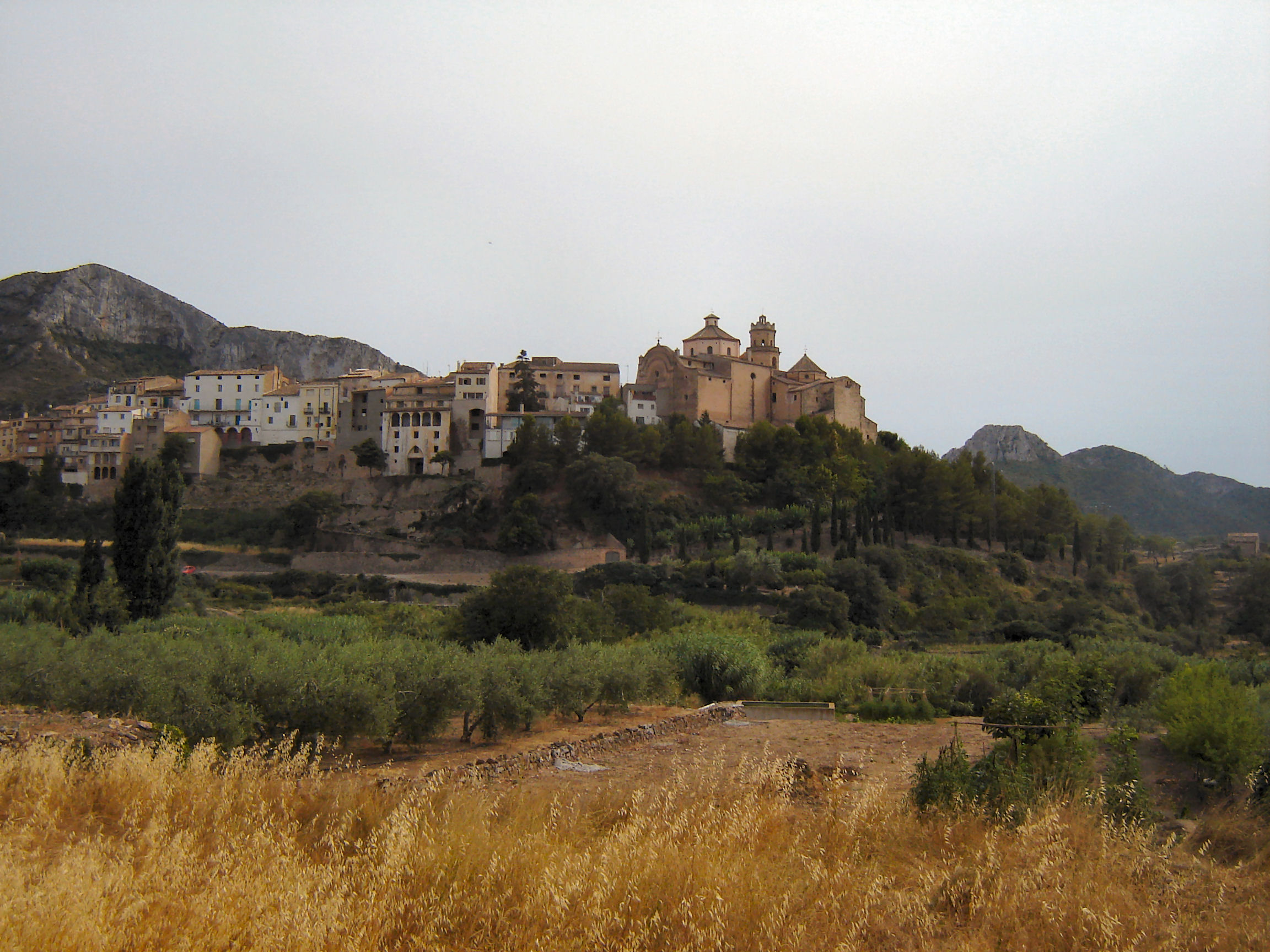 View on the village of Tivissa. Tivissa, comarca Ribera d'Ebre, Tarragona, Catalonia, Spain